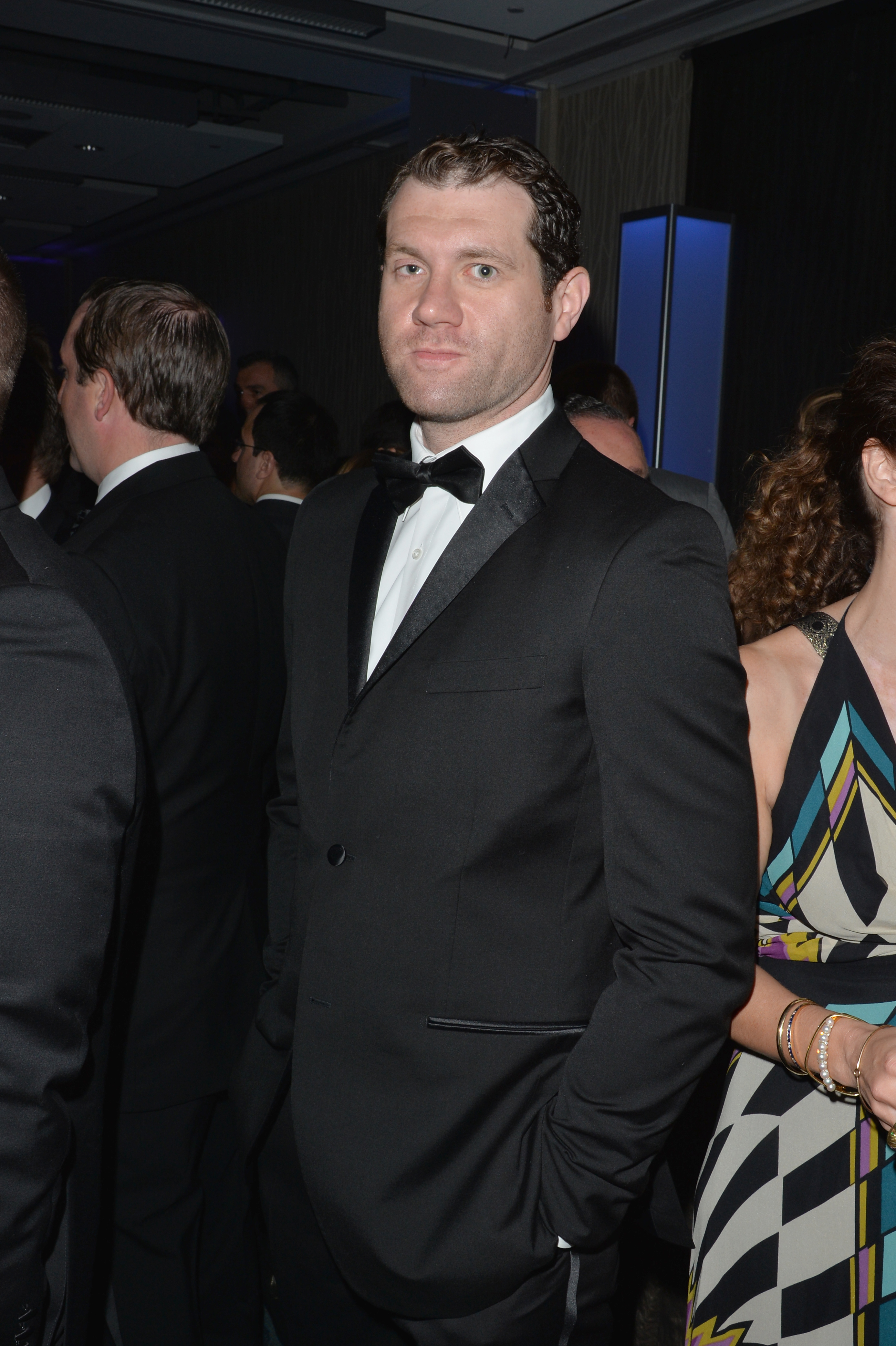 WASHINGTON, DC - MAY 03: Comedian Billy Eichner attends the Yahoo News/ABCNews Pre-White House Correspondents' dinner reception pre-party at Washington Hilton on May 3, 2014 in Washington, DC. (Photo by Andrew H. Walker/Getty Images for Yahoo News)